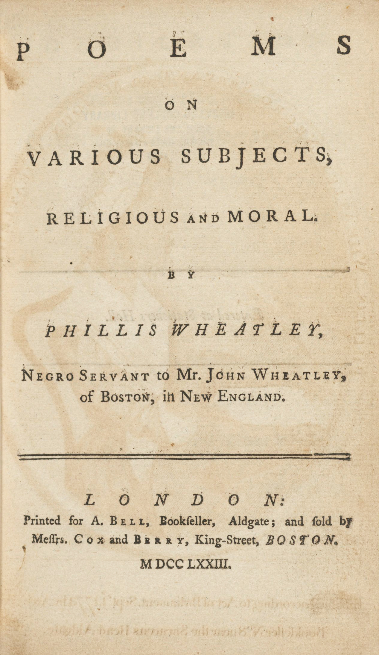 Title page: Poems on various subjects, religious and moral, London: 1773, by Phillis Wheatley (d. 1784). *AC85.Aℓ245.Zy773w, Houghton Library, Harvard University